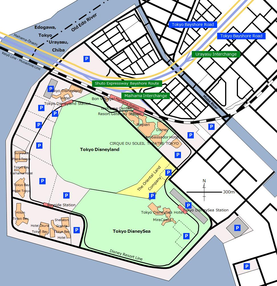 The map of Tokyo Disney Resort (English language)